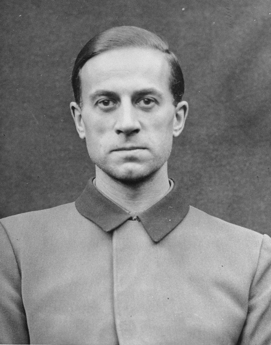 Portrait of Karl Brandt as a defendant in the Medical Case Trial at Nuremberg. [Photograph #06231] Portrait von Karl Brandt als Angeklagter im Nürnberger Ärzte-Prozess. [Fotographie #06231] Date: Nov 5, 1946 - Aug 20, 1947 Locale: Nuremberg, [Bavaria] Germany Credit: USHMM, courtesy of Hedwig Wachenheimer Epstein Copyright: USHMM